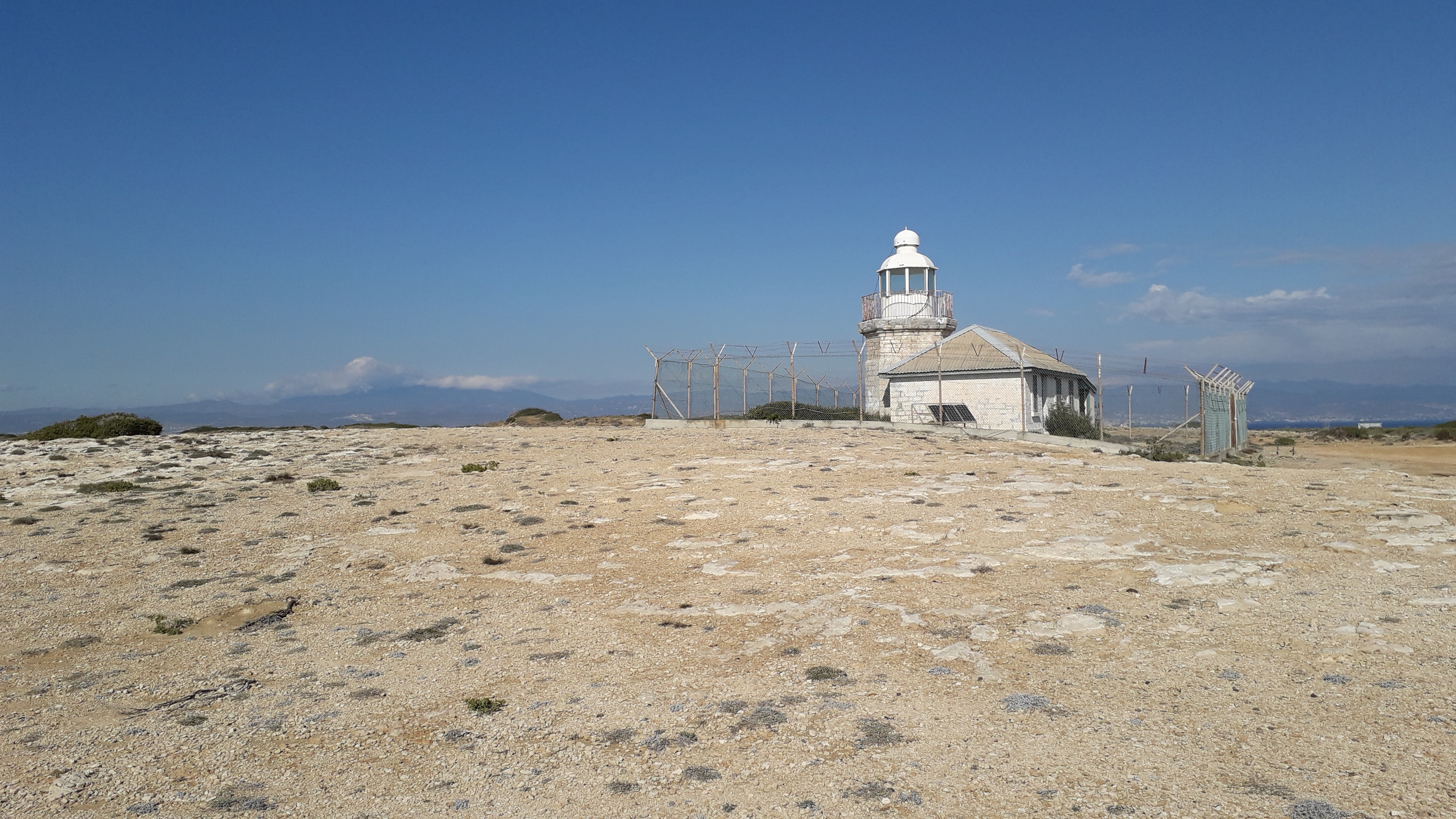 Cape Gata lighthouse, Cyprus on the Cape Gata headland